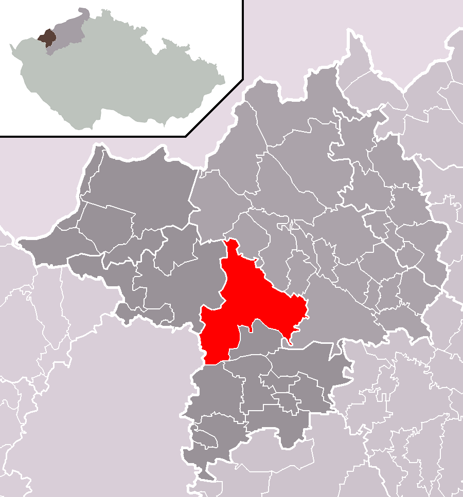 Location of Kadaň town within Chomutov District and administrative area of Kadaň as a Municipality with Extended Competence.